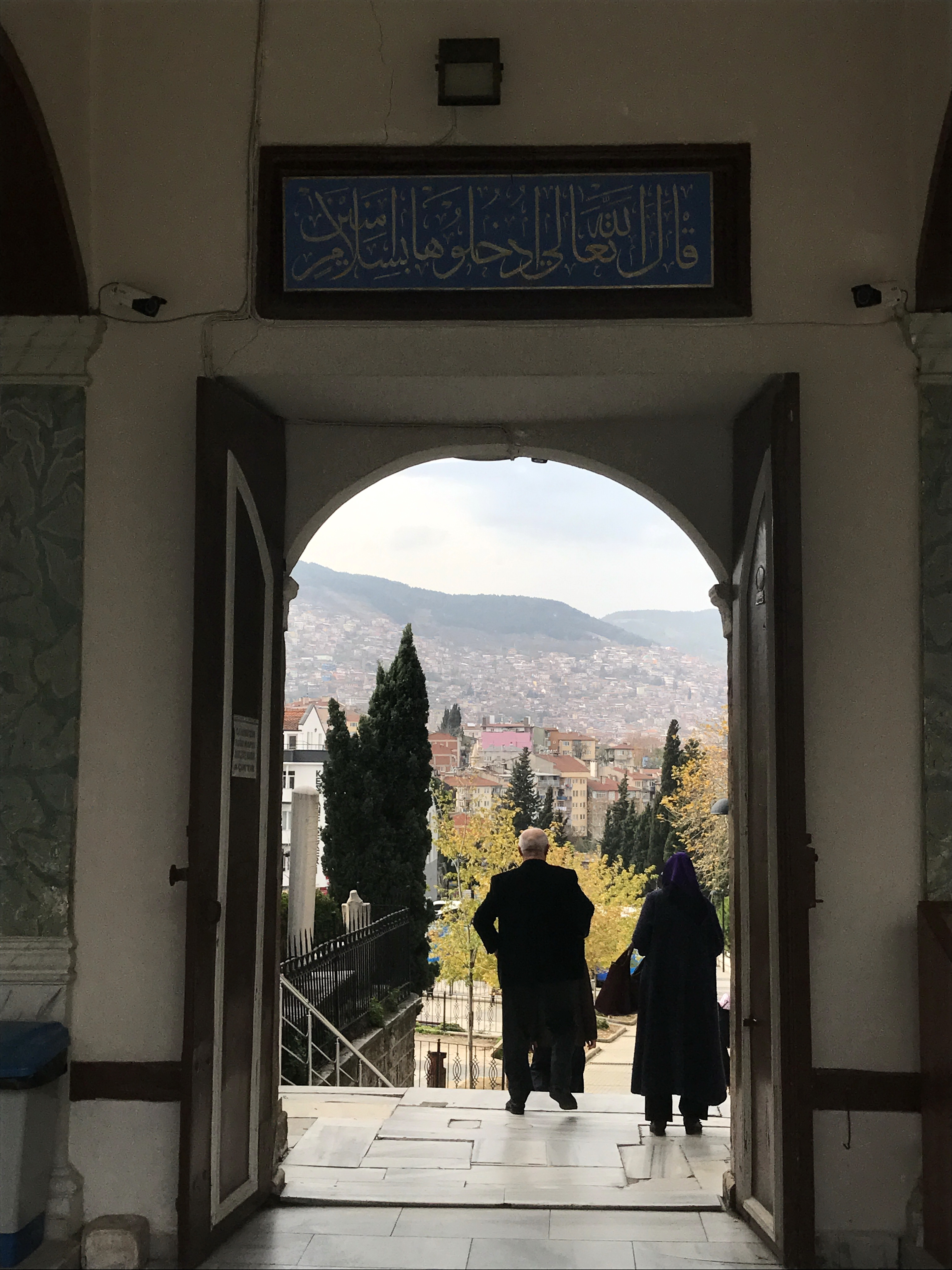 Emir Sultan Mosque in Bursa, Turkey.